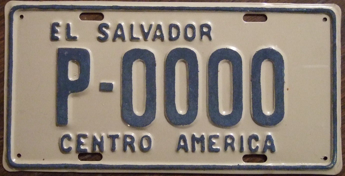 This plate has reflective dark blue beading on a grey background.